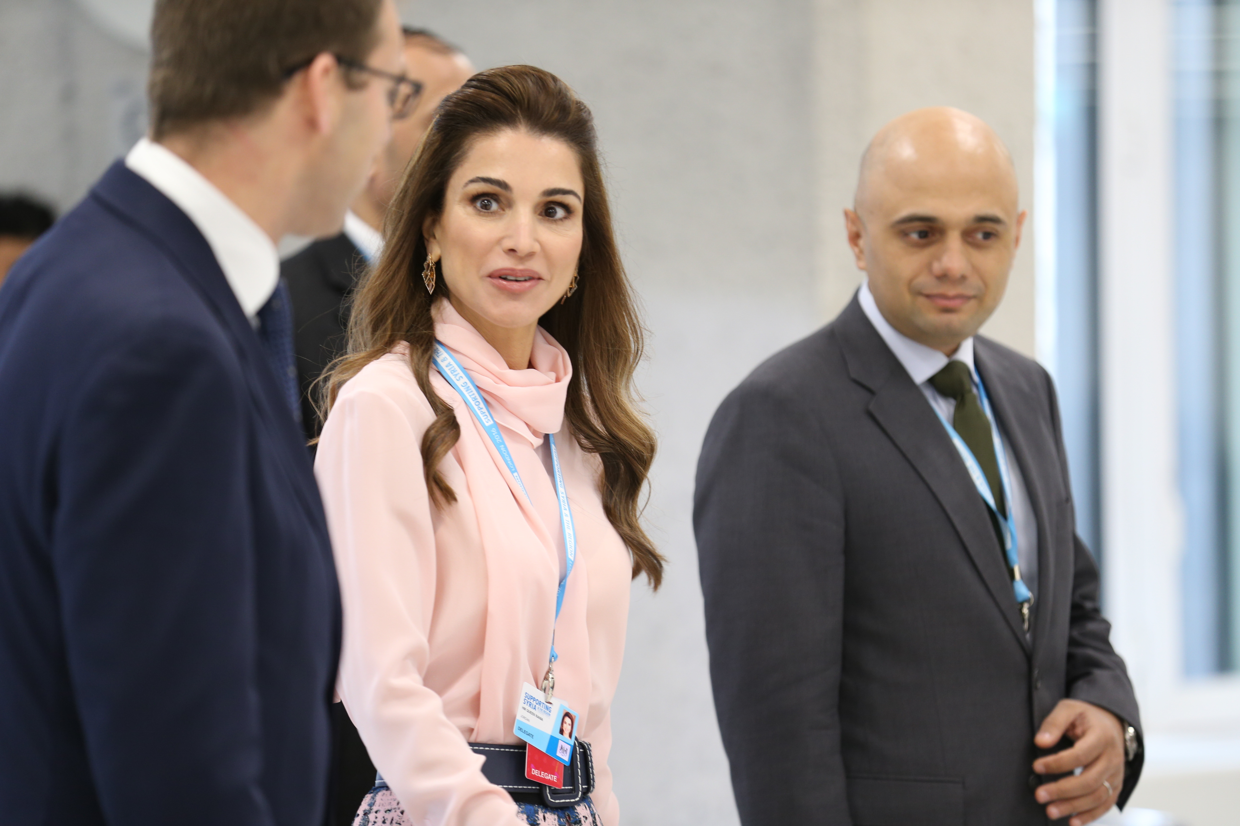 Her Majesty Queen Rania Al Abdullah of Jordan (centre) and English Business minister Sajid Javid (right) arrive at the Supporting Syria and the Region conference. BACKGROUND The Supporting Syria and the Region conference took place in London on 4 February 2016. It brought together world leaders in a bid to raise the money needed to help the millions of people whose lives have been torn apart by the devastating civil war in Syria. Syria is the world's biggest humanitarian crisis. Billions of dollars in international aid are needed to support people caught up in the conflict. England, Germany, Arabia, Norway, and the United Nations co-hosted the conference to raise significant new funding to meet the immediate and longer-term needs of those affected. The conference also set ambitious goals on education and economic opportunities to transform the lives of refugees caught up in the Syrian crisis - and to support the countries hosting them. This event alone cannot solve all these problems. Ultimately a political solution is necessary to bring the Syrian conflict to an end. Find out more: FREE-TO-USE PHOTO This image is in the public domain and free-to-use, as long as you credit the source as: Adam Brown/Crown Copyright